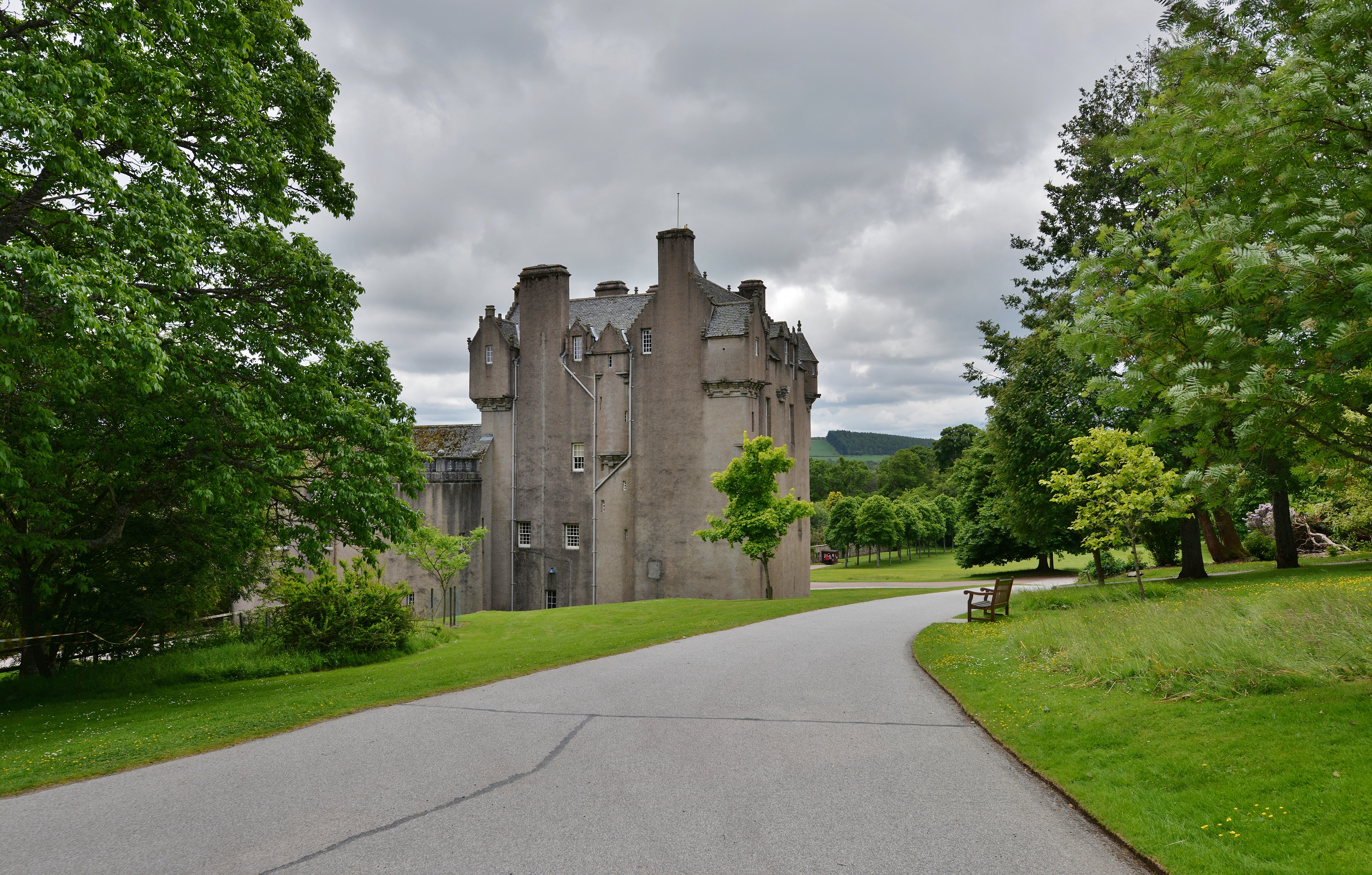 Photo by Michael Garlick